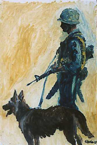 SCOUT DOG by Augustine G. Acuna, CAT II, 1966-67, Courtesy of the National Museum of the U.S. Army